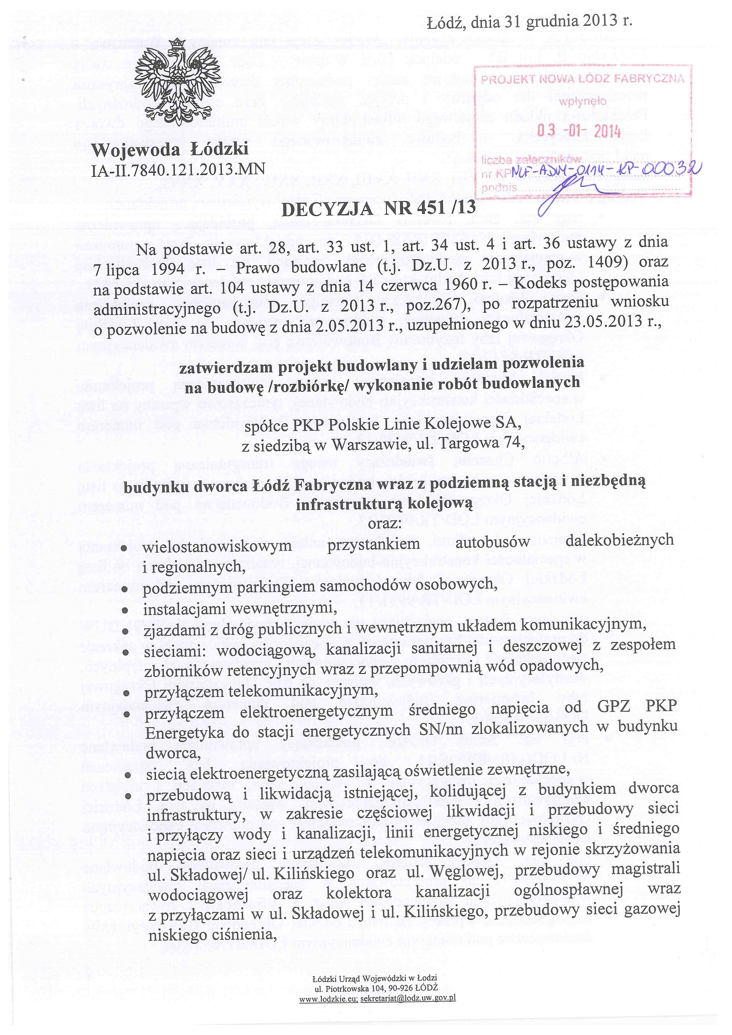 Building permit photo